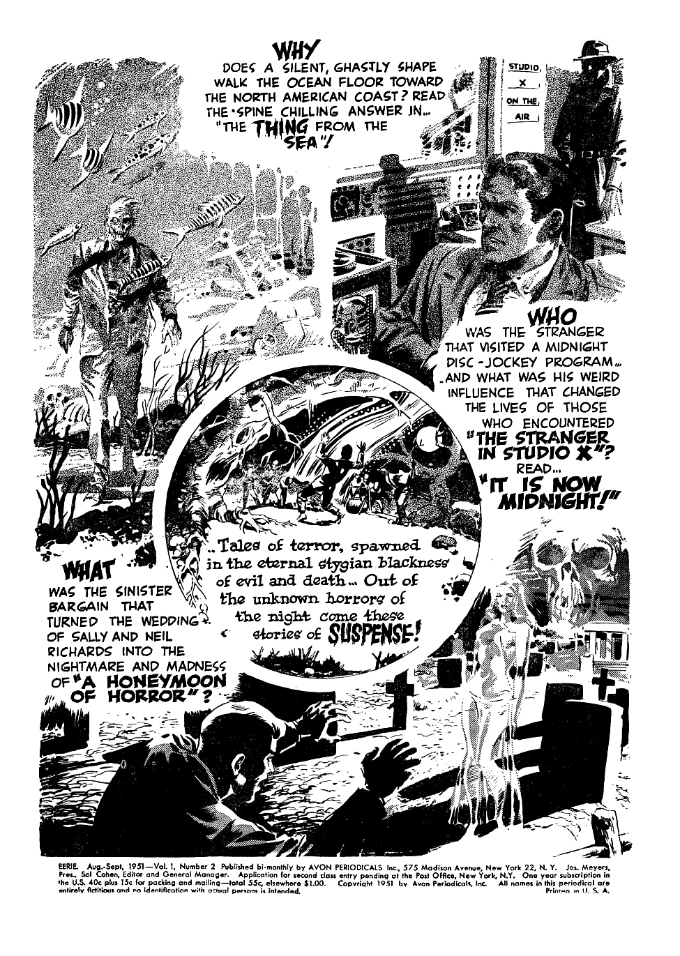 Inside cover/contents page from Eerie number 2 (Avon Publications, August 1951), featuring master-class artwork by the incomparable Wally Wood.